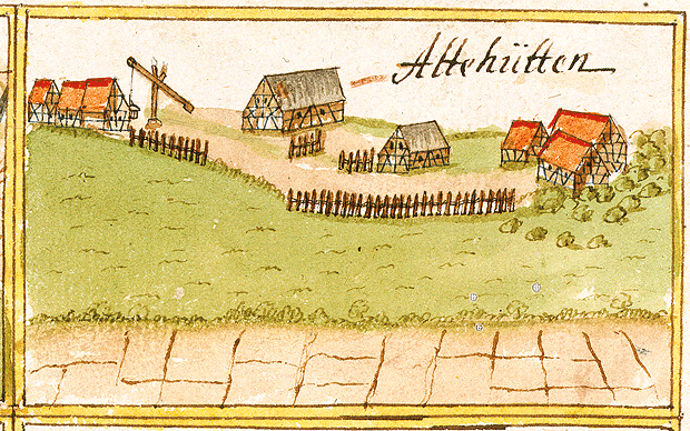 View of Althütte from the forest register books created by Andreas Kieser